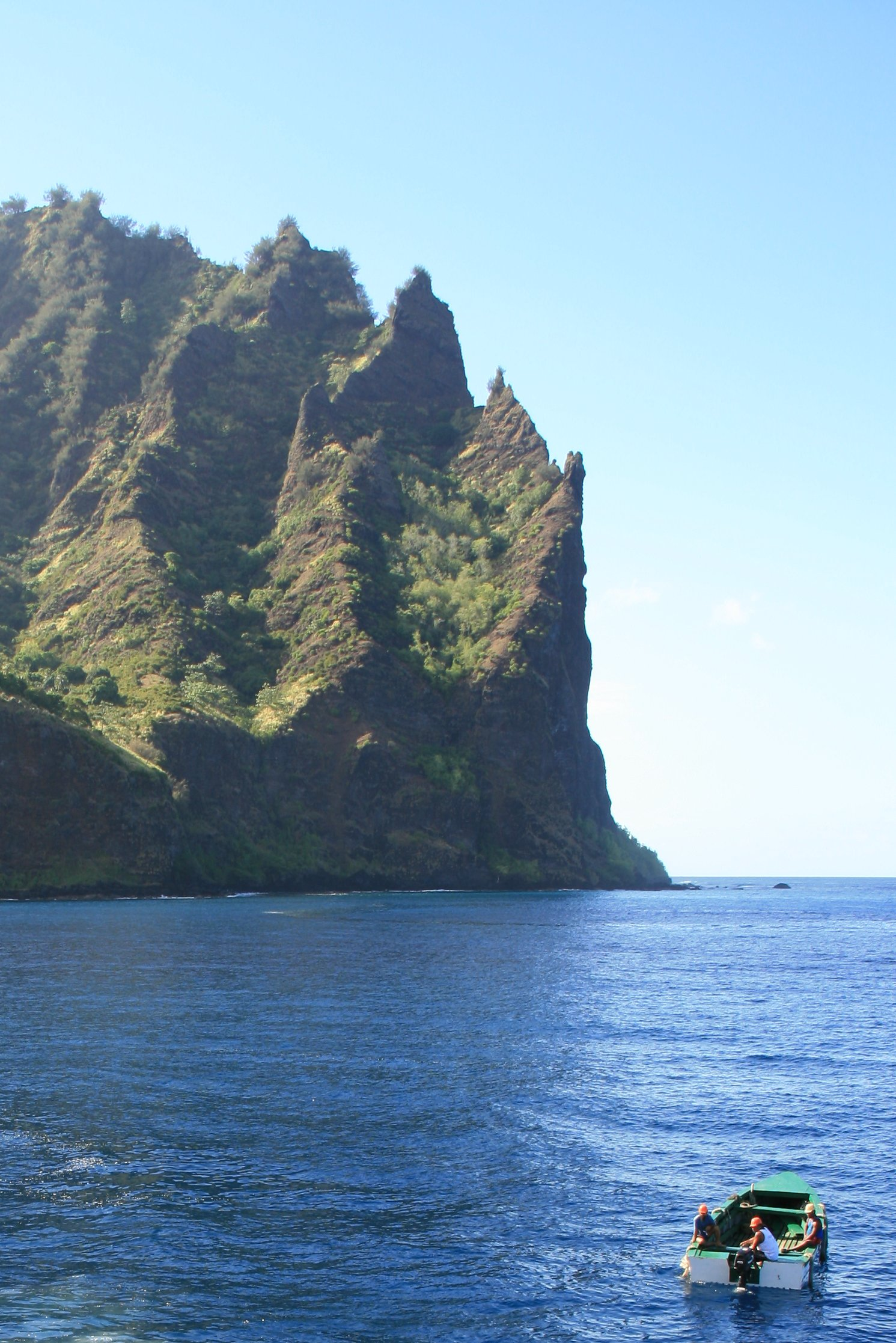 Coast of island of Fatu Iva, near the village of Omoa, Marquesas islands, French Polynesia.